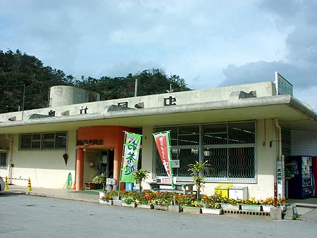 Oku Community Cooperative Store